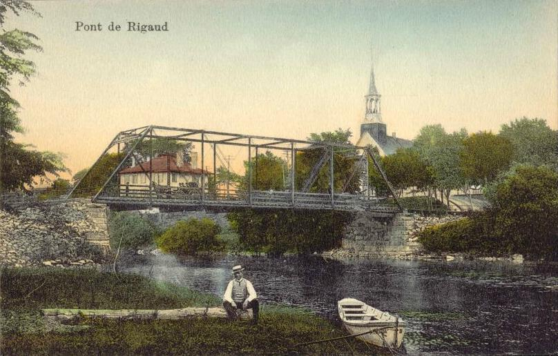 Pont de Rigaud, Québec.